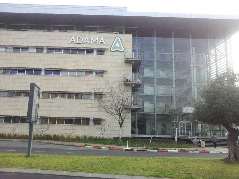 ADAMA Agricultural Solutions HQ office in Airport City Israel